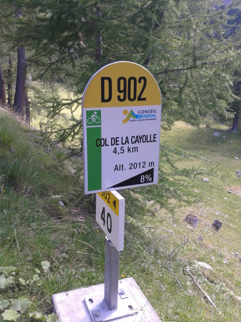 Mountain pass cycling milestone at the Col de la Cayolle in France ascending from Barcelonnette